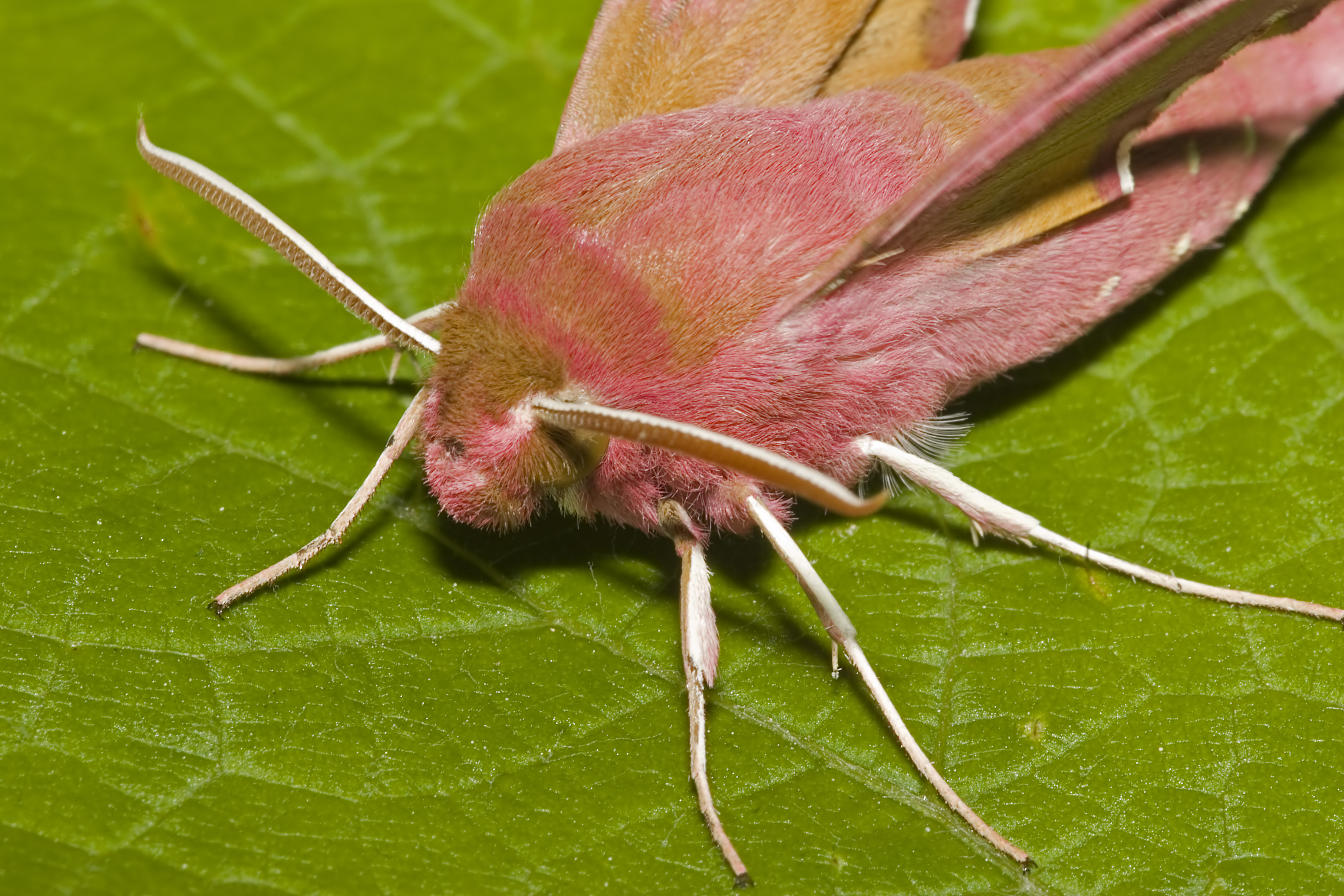 Small Elephant Hawk-moth